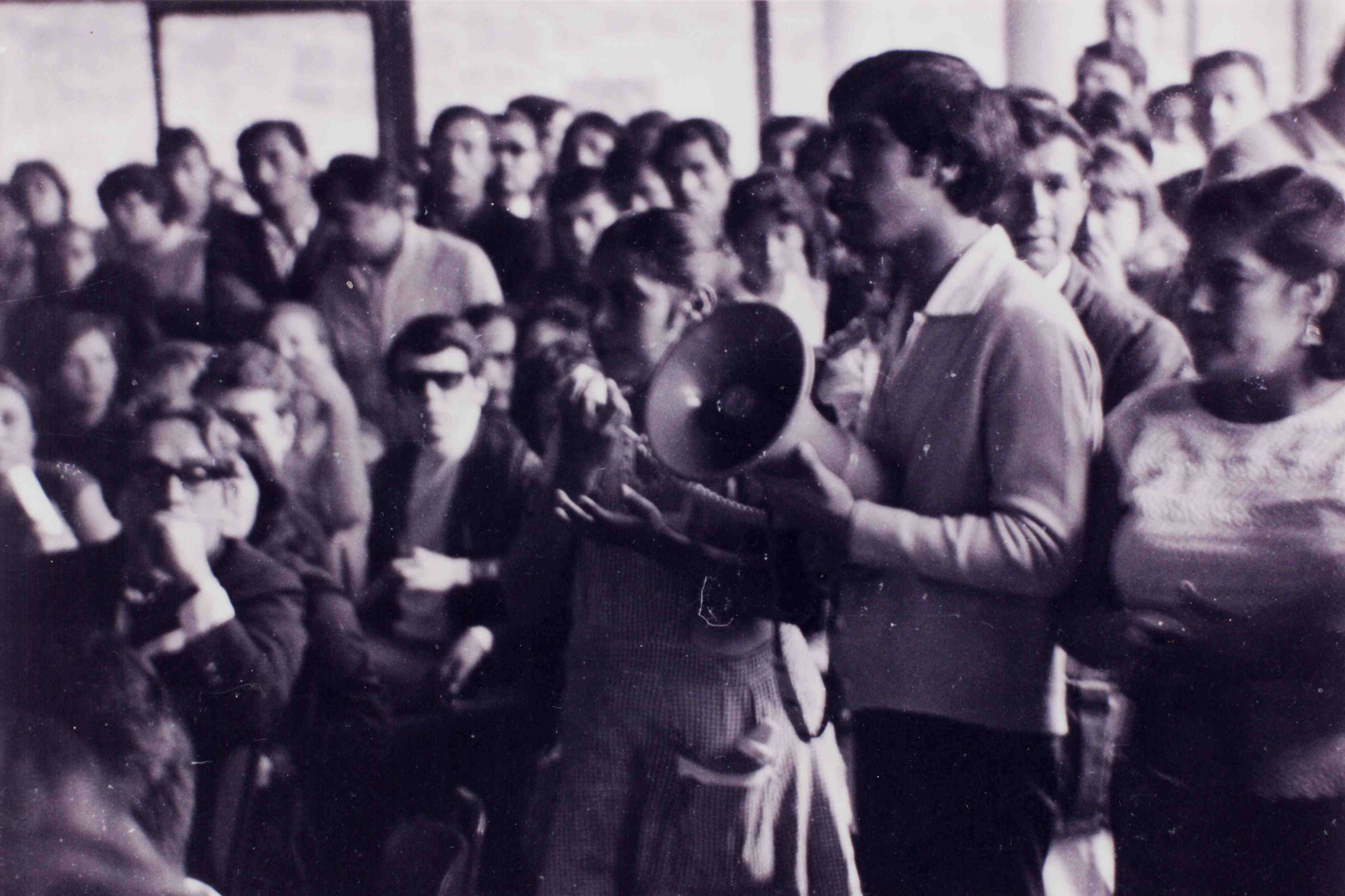 miting at the Philosify School; University of Mexico